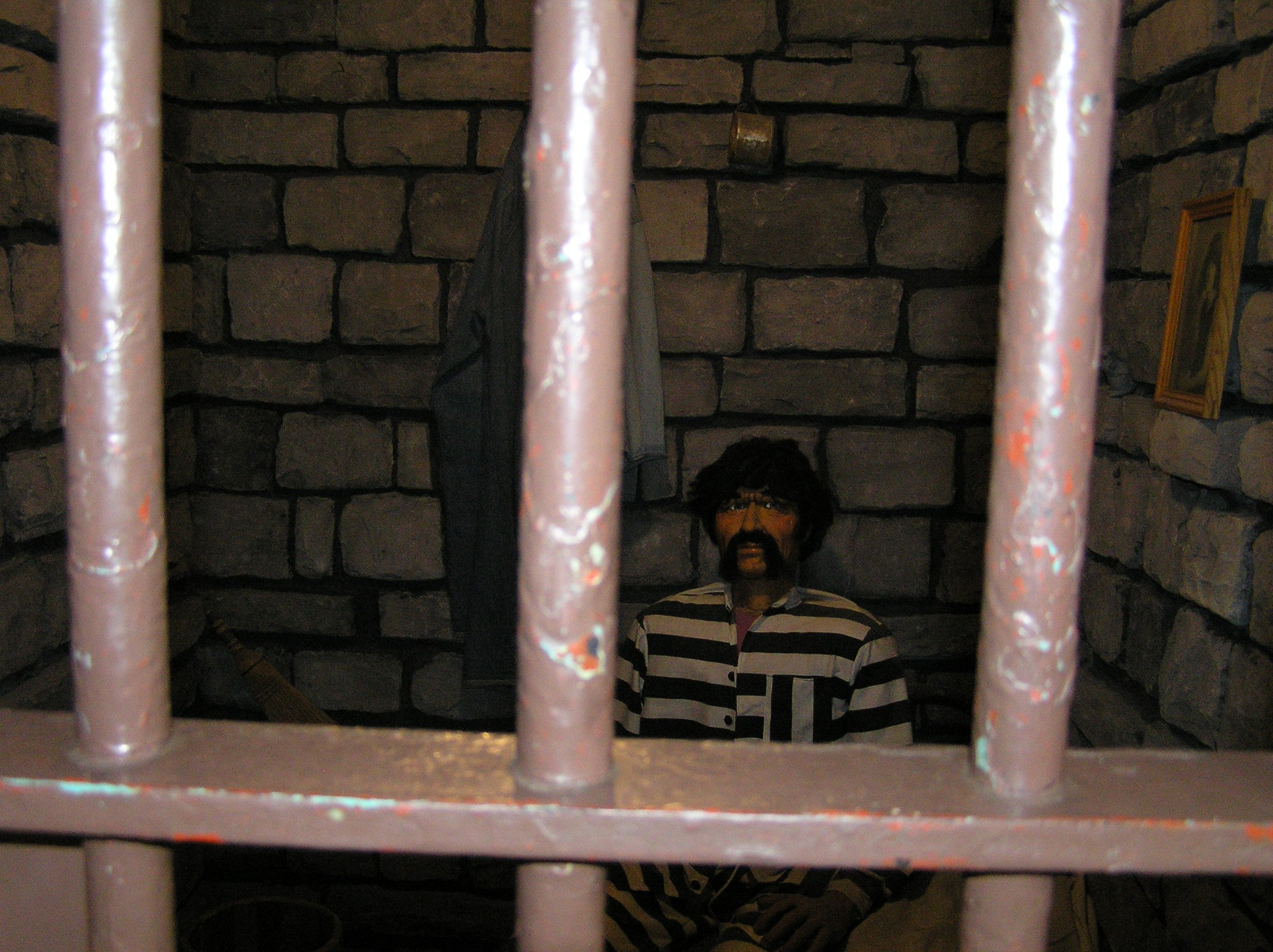 Folsom prison